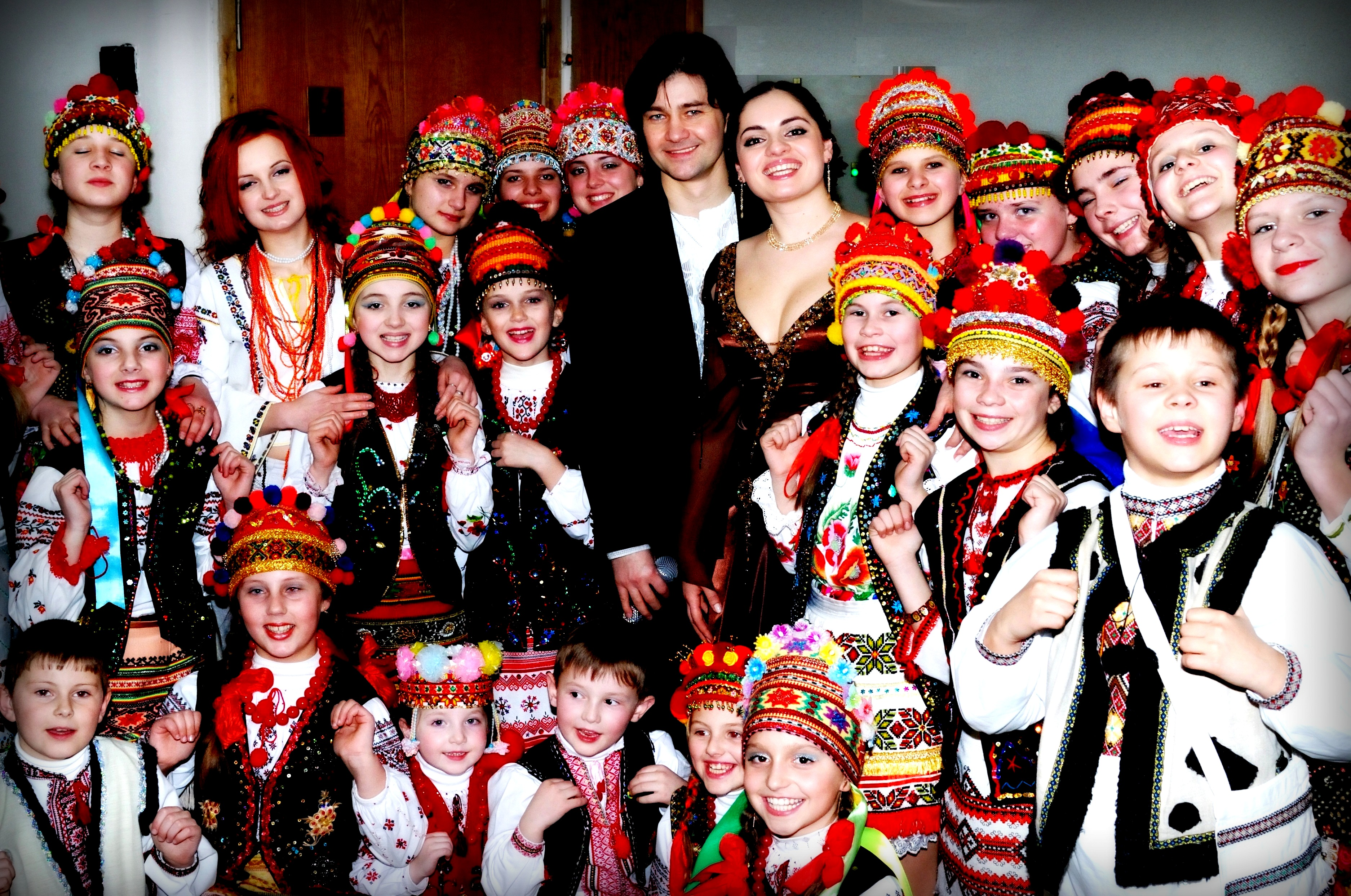 Marta Shpak with "Little Boiky" and Eugene Nyshchuk at the concert in Kyiv (Ukraine)